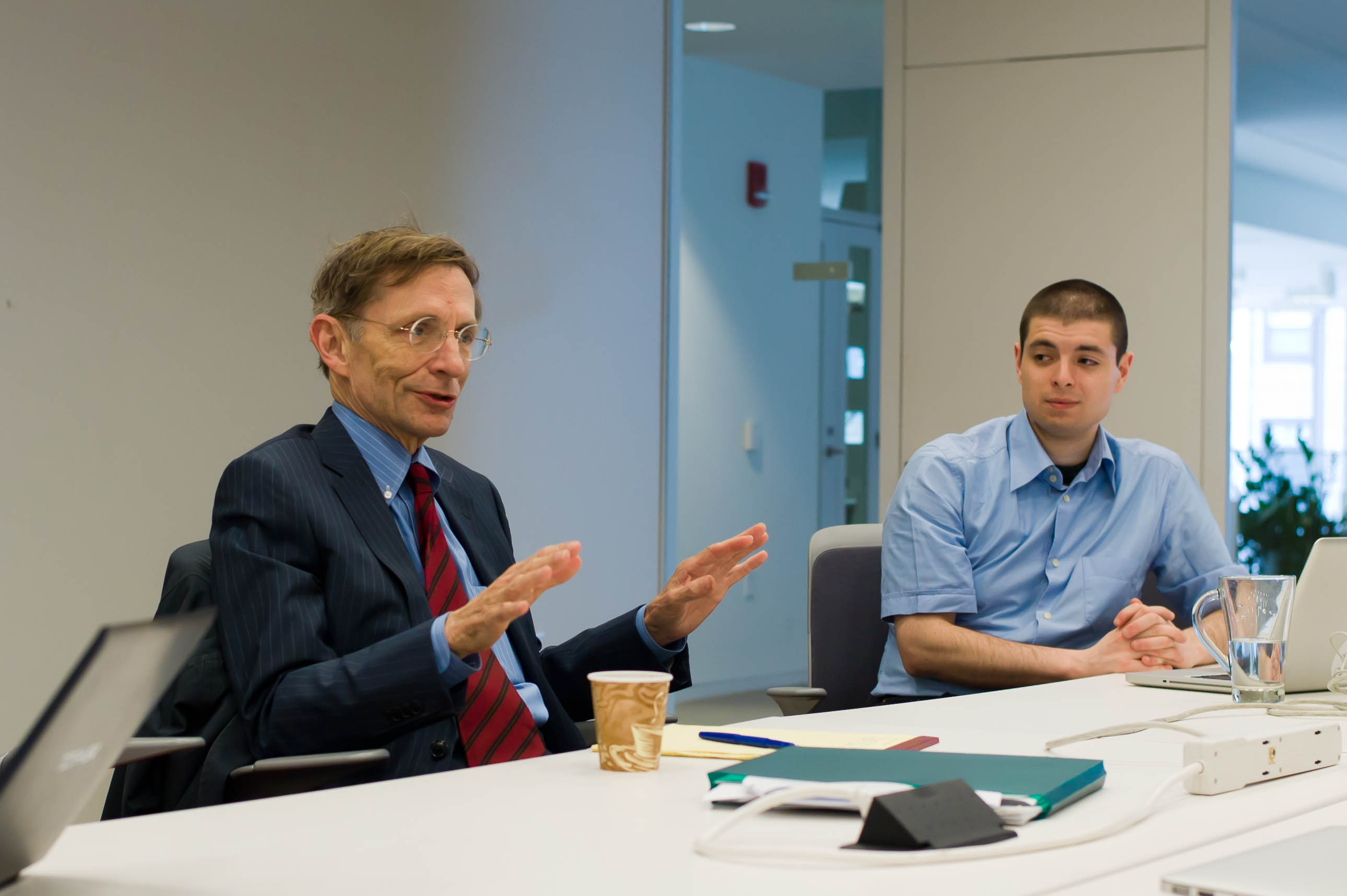 Bill Drayton and J Nathan Matias